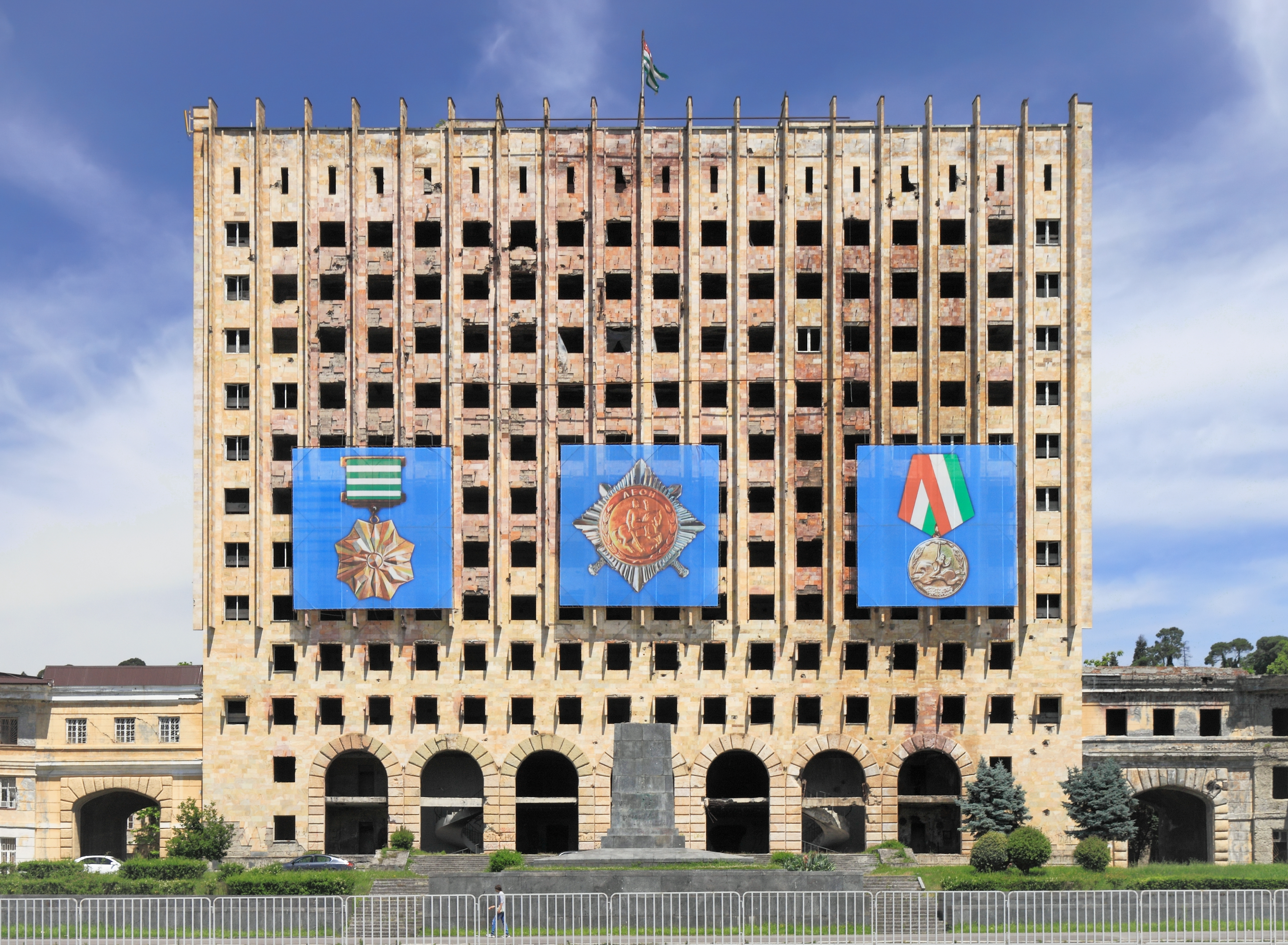 The former building of the Council of Ministers of the Soviet Abkhazia. Sukhumi, Abkhazia.